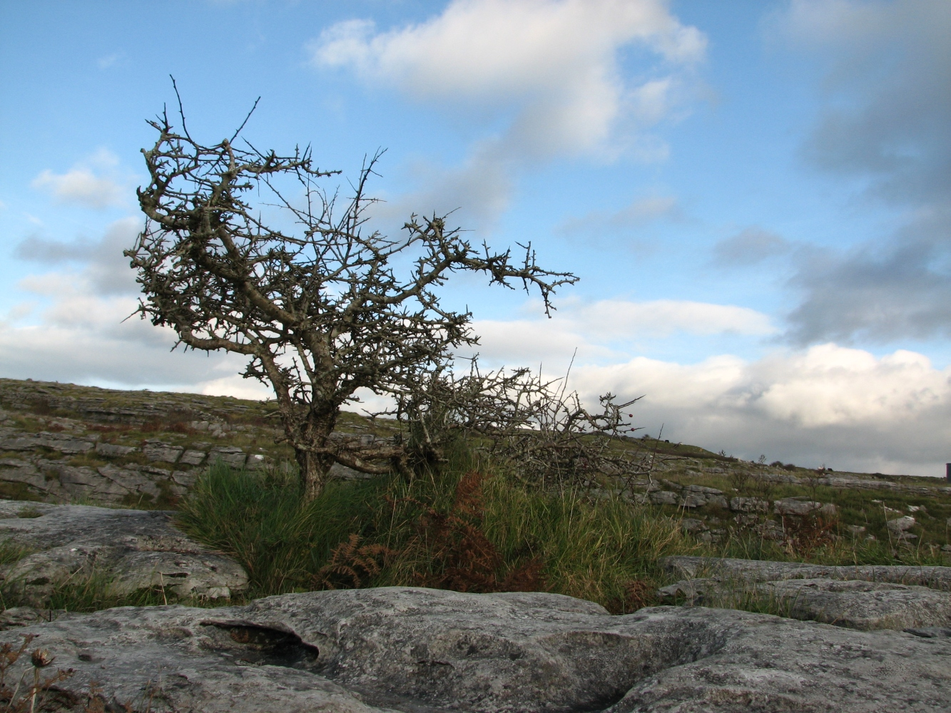 Naked tree in Burren, County Claire, Ireland